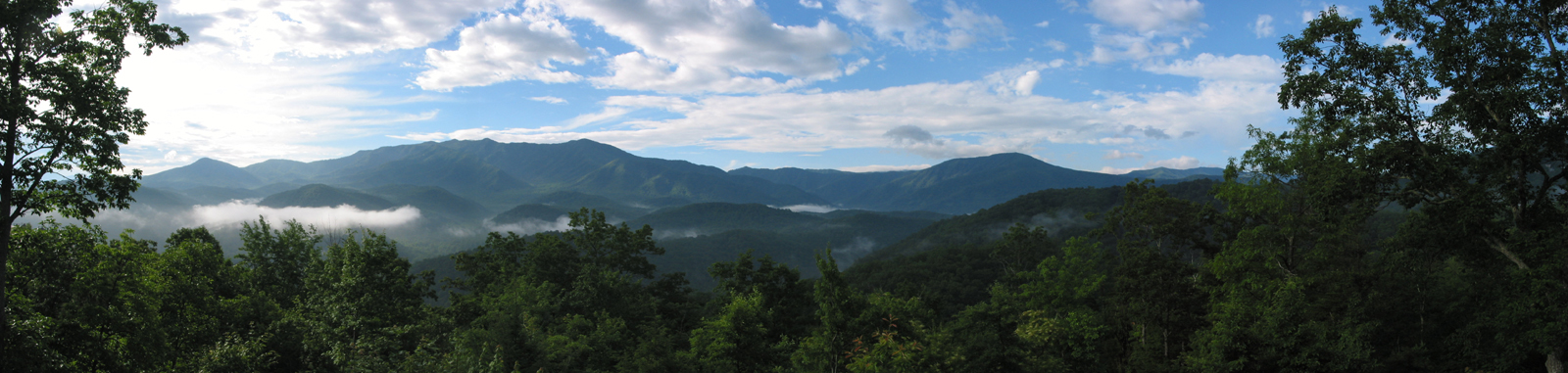 I took this photo (actually a string of photos)myself. It is a compilation of four photographs taken within ten seconds and then stitched using Canon PhotoStitch. The only other edit was cropping it to a presentable presentation and reduced in size from the original. The original is 30" wide and 8" tall. The perspective is from the mountain overlooking the Gatlinburg bypass, just off Copper Mine Road. The tallest mountain about center is Mt. Leconte.